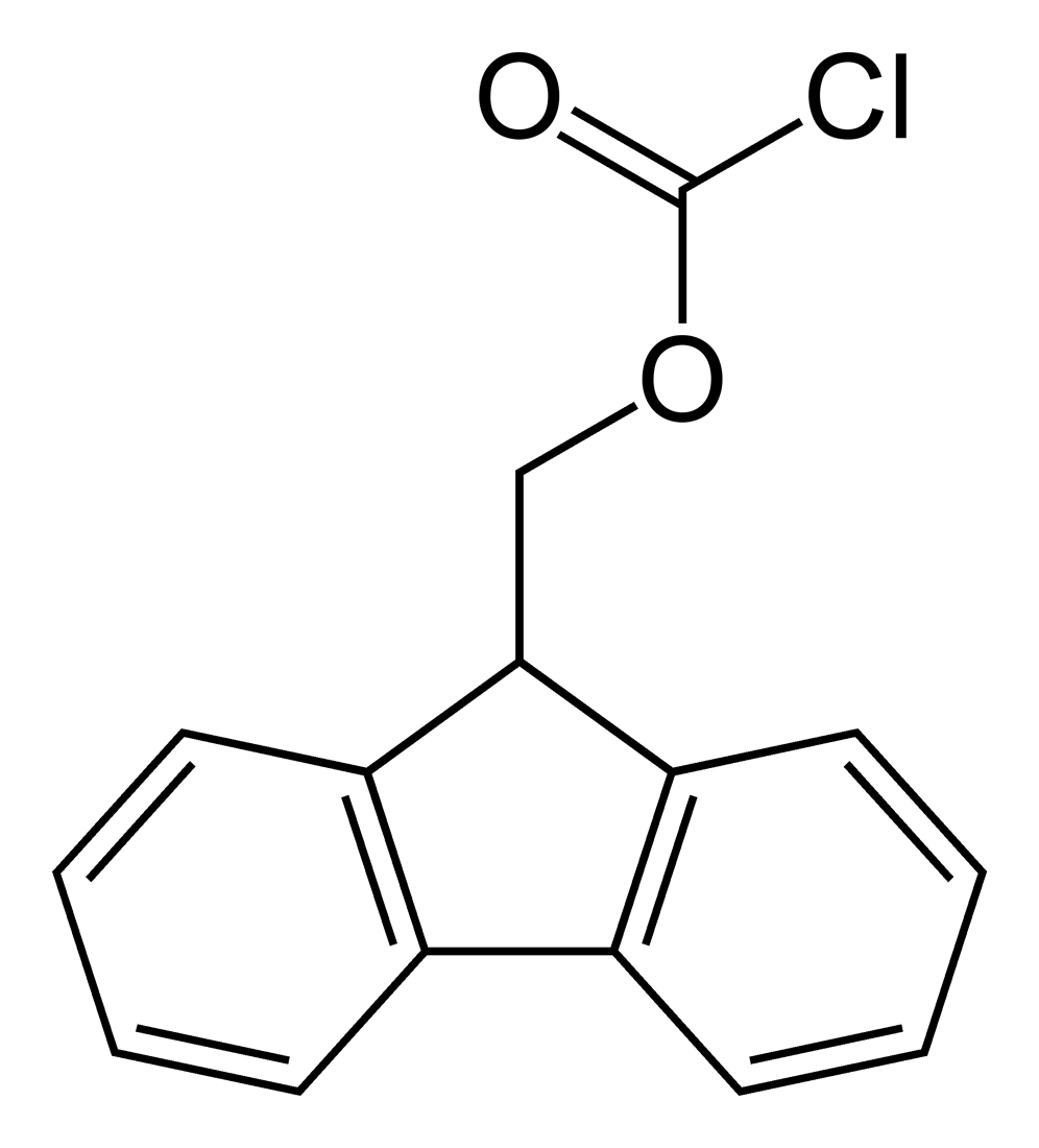 Skeletal formula of the fmoc molecule, C15H11ClO2